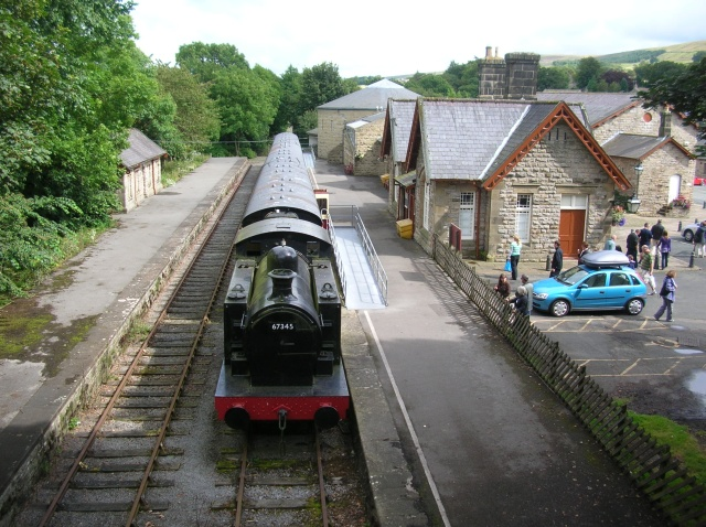 Hawes railway station This stretch of track is only about 100 yards, the line is long since dismantled. The line used to run from Northallerton to Garsdale Head where it met the Settle Carlisle line. The station here is now an information centre.